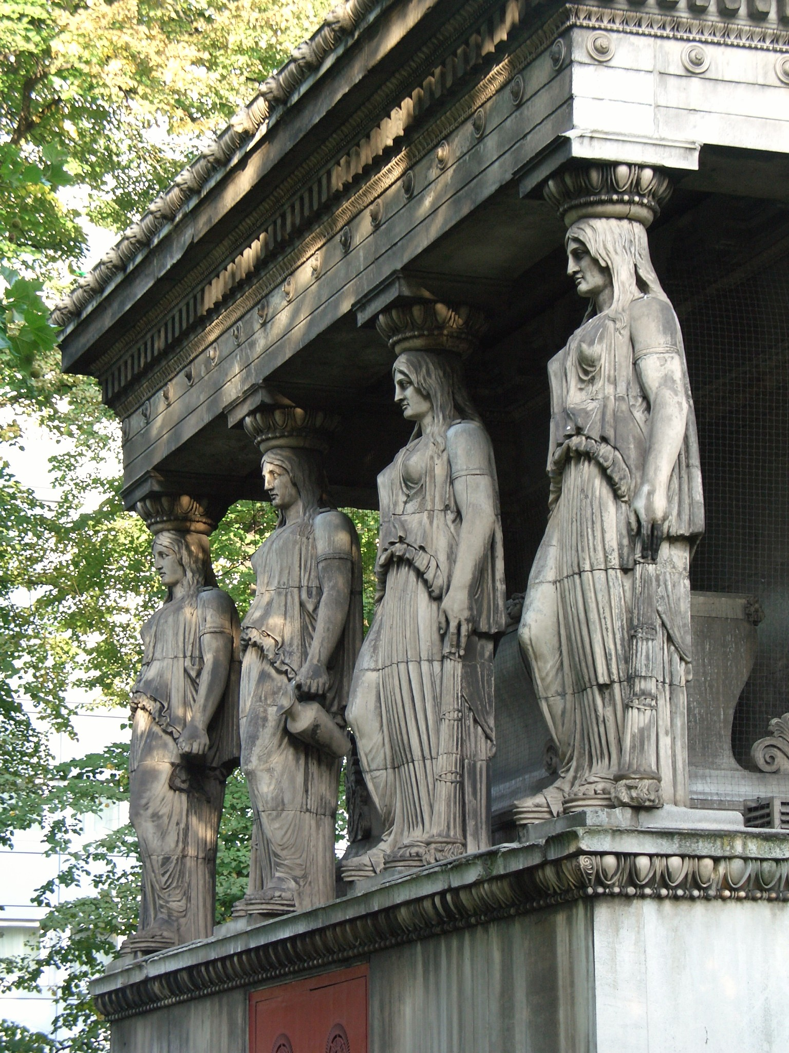 Caryatids, by John Charles Felix Rossi on the north side of St Pancras New Church, London. Completed in 1822, the church is partly based on the Ionic Temple of the Erectheion, on the Acropolis of Athens.